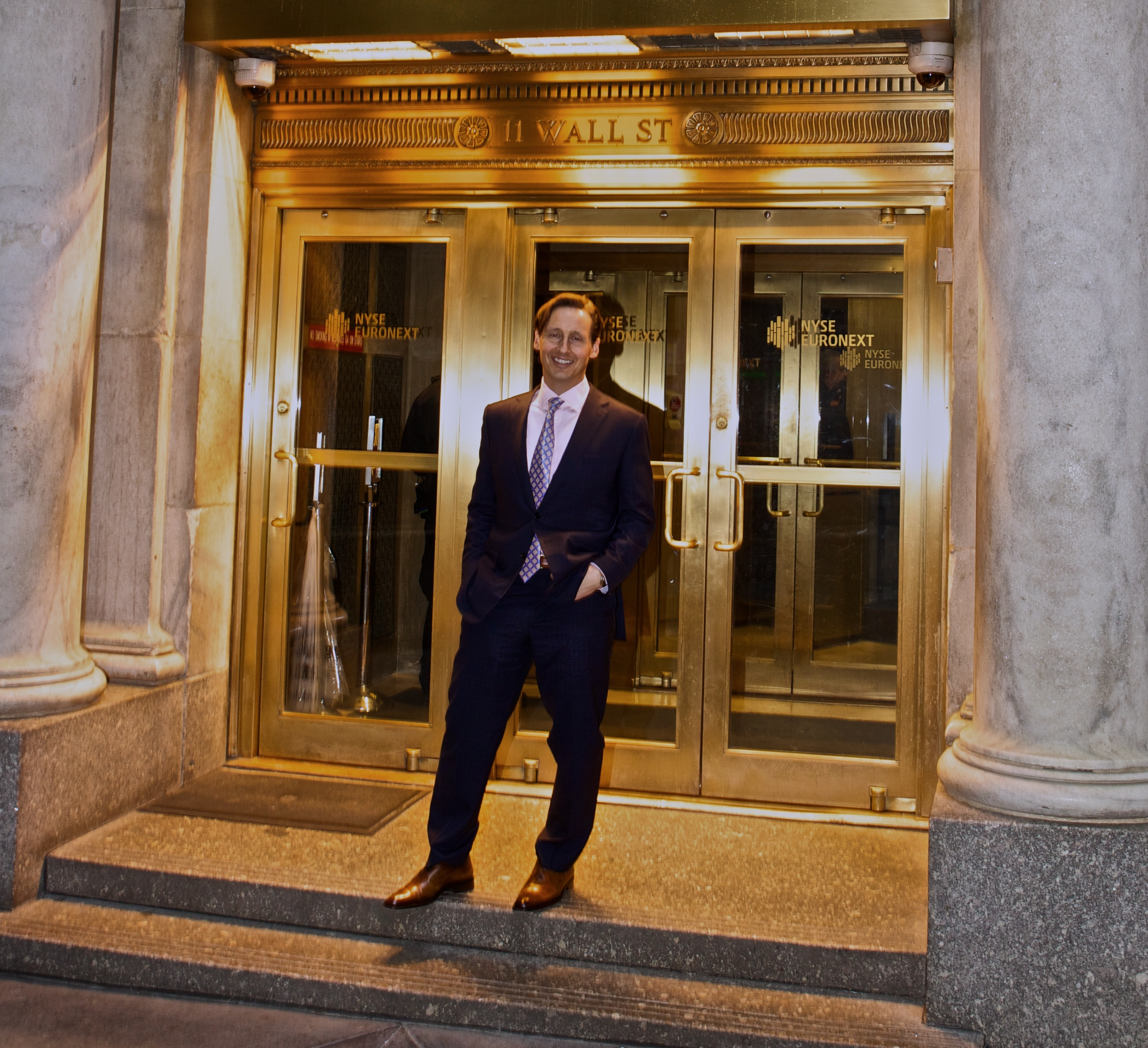 A photo of Michael Vranos.